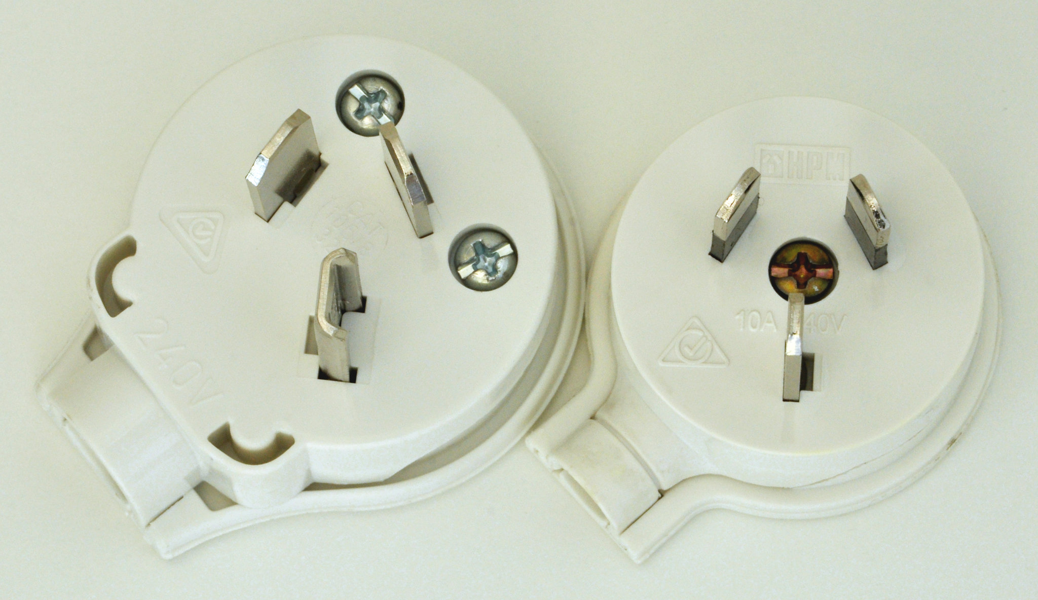 Comparison of the 32 A and 10 A single-phase mains electricity plugs used in domestic (indoor) environments in Australia, New Zealand, and other countries following the AS/NZS 3112 standard. While the "comparison" can easily be seen, one wonders what this has to do with every-day domestic use of the "normal" 10 A Australian Plug in any normal 10 A Australian socket outlet. An Australian 10 A plug can be inserted into any Australian socket outlet - from 10 A through several other capacities up to 32 A. However, no higher capacity Australian plug can be inserted into any lower capacity Australian socket outlet.